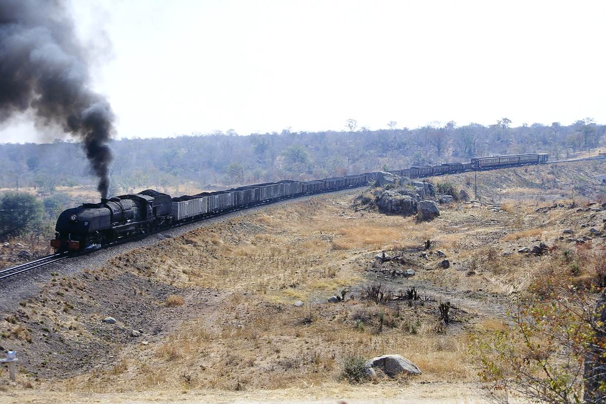 A NRZ 15th class Garratt with a mixed train on the Victoria Falls – Bulawayo line, Zimbabwe.